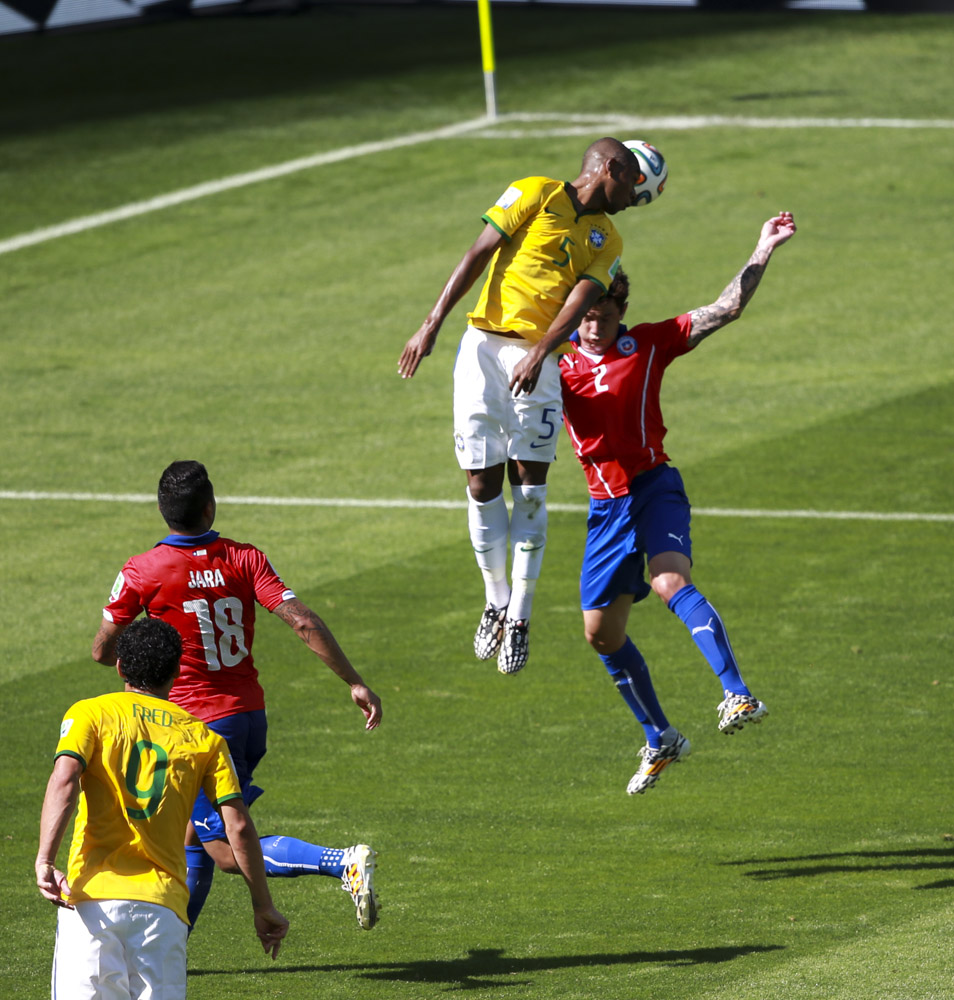 Brazil vs. Chile in Mineirão